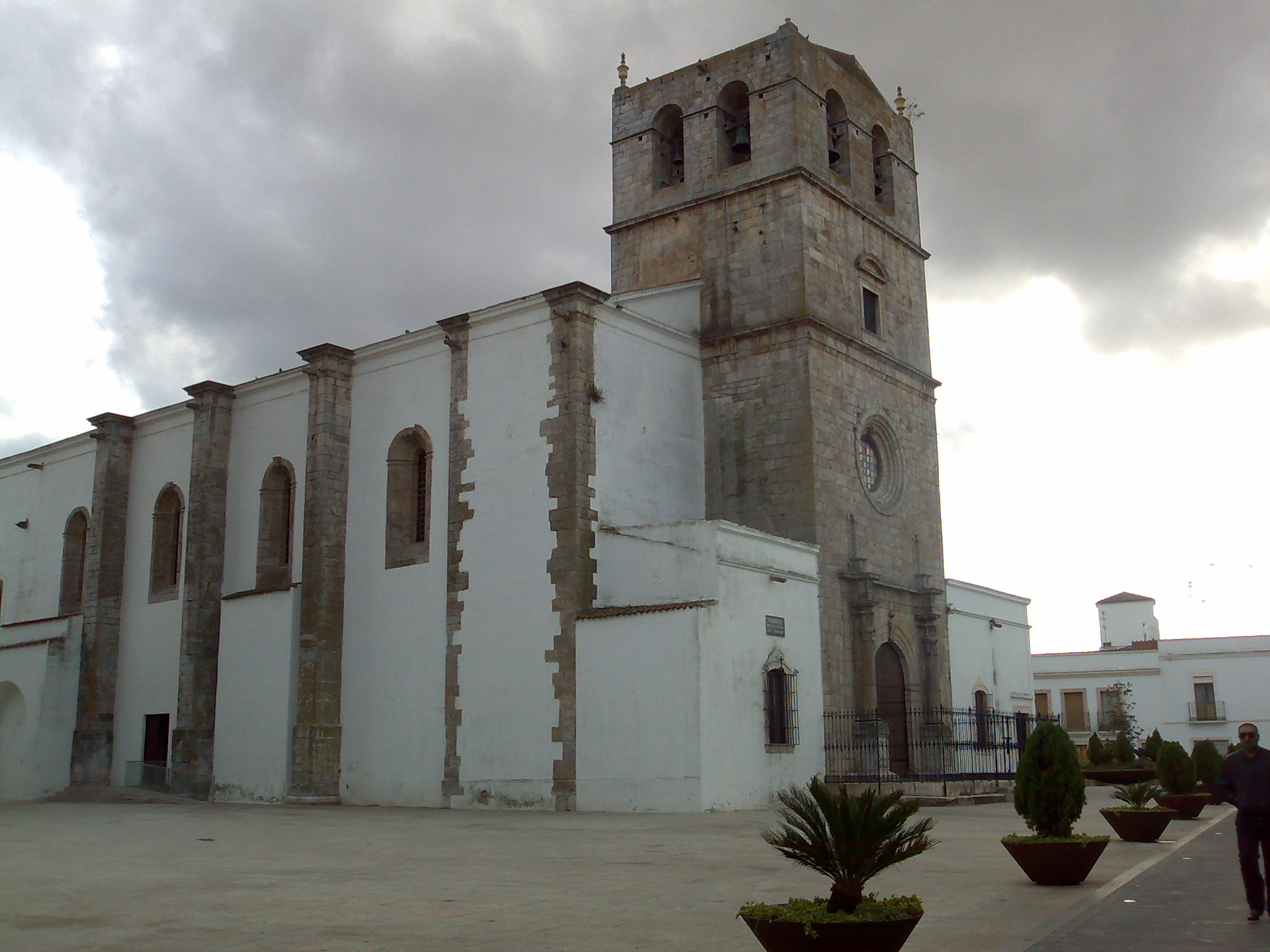 Church of Santa Maria do Castelo (Olivença)